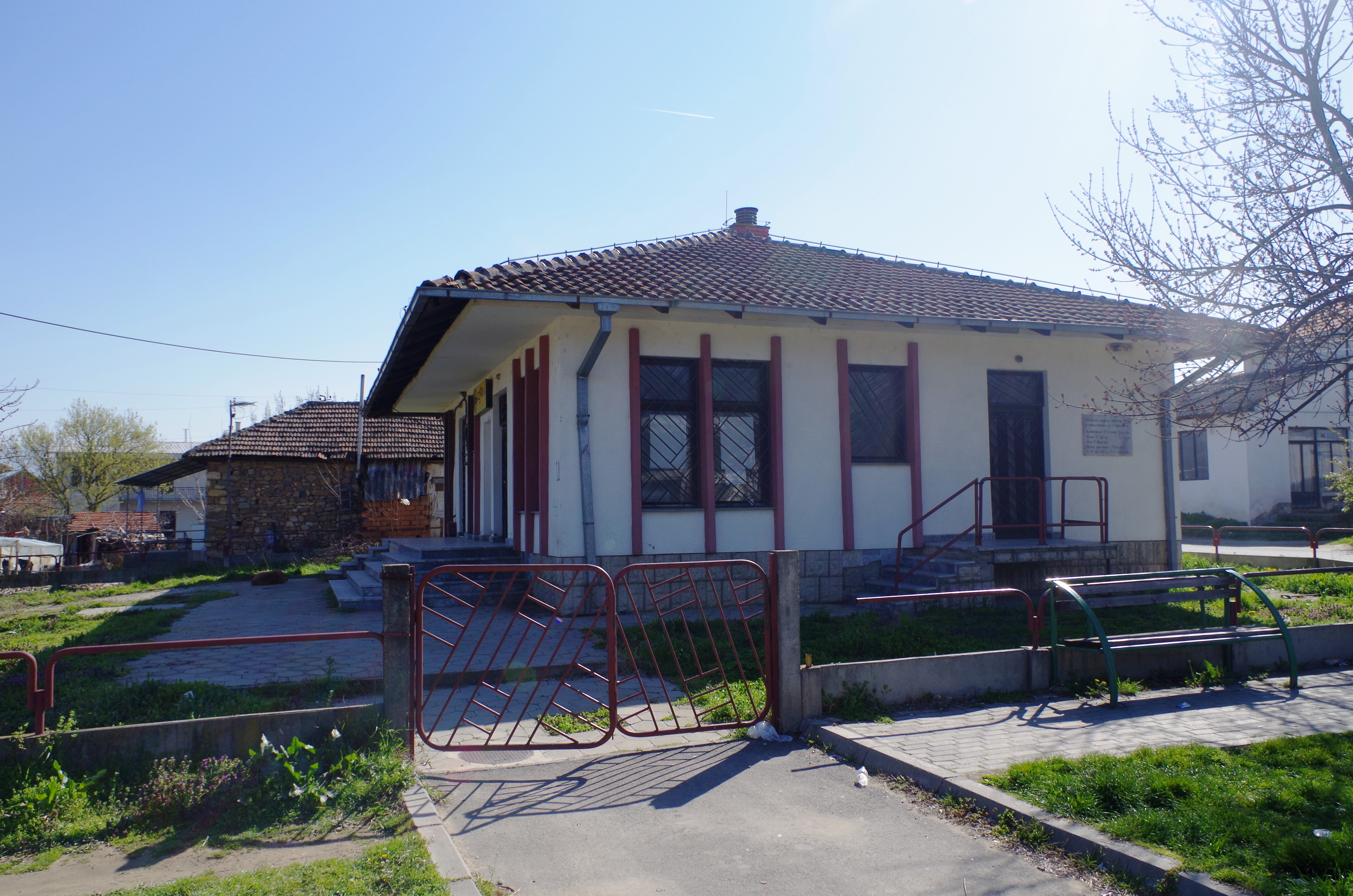 Rural community in the village Pepeliste